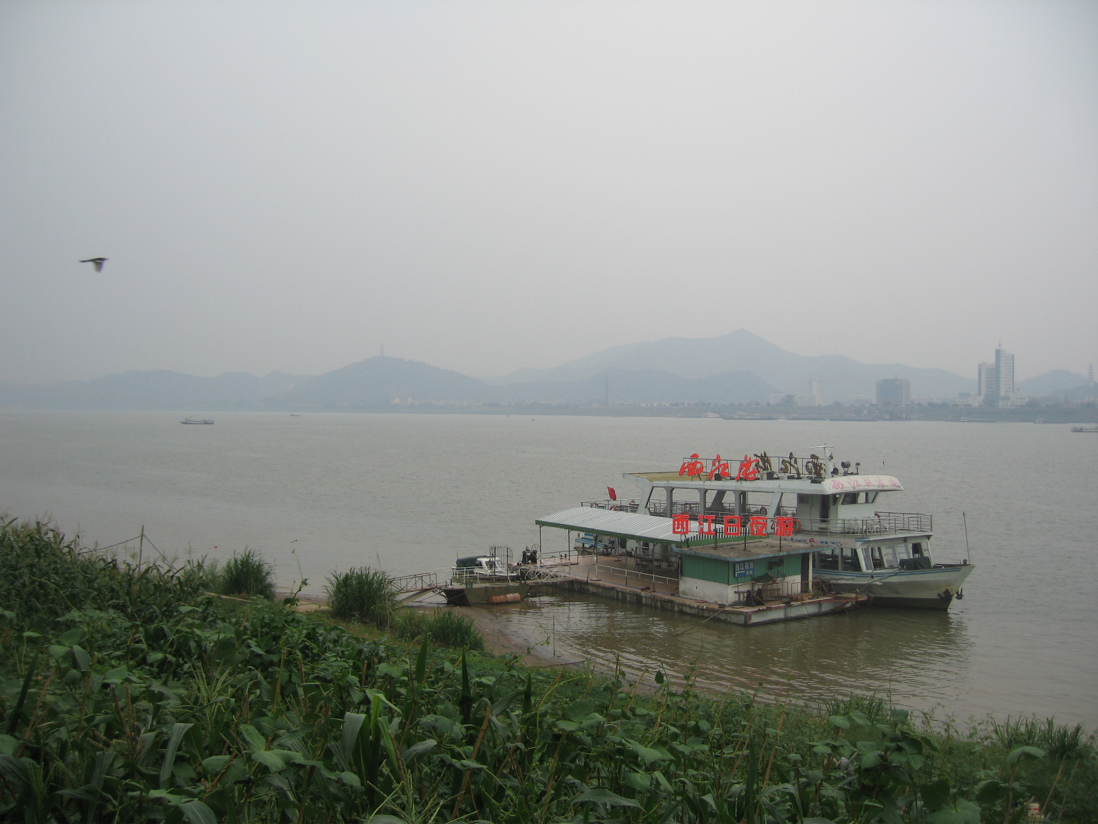 The Xi Jiang (West River) in Zhaoqing.